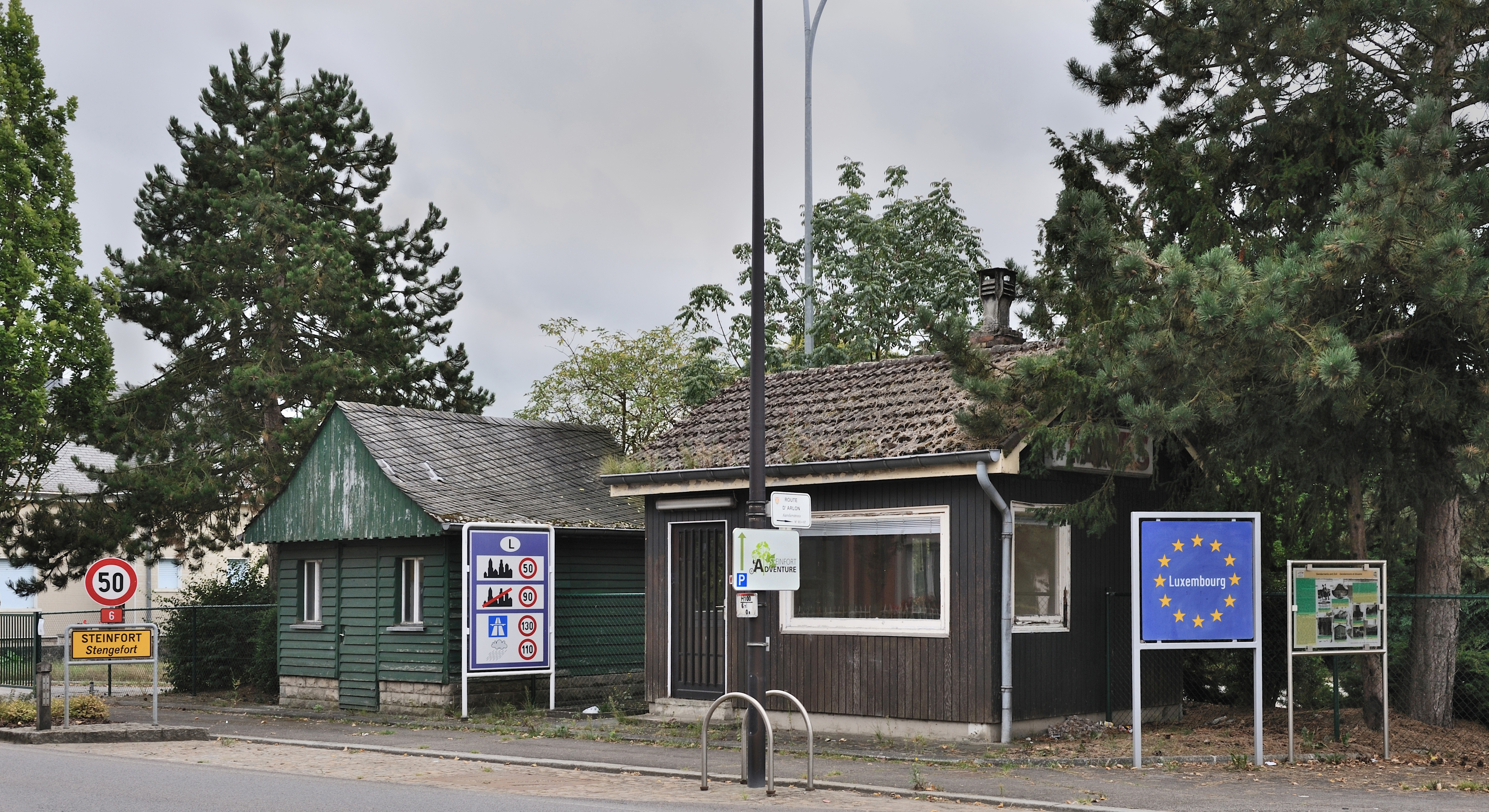 Luxembourg Steinfort, route d'Arlon: entrance to the village on the frontier with Belgium. The former customs office (at right) is closed since January 1 1993.